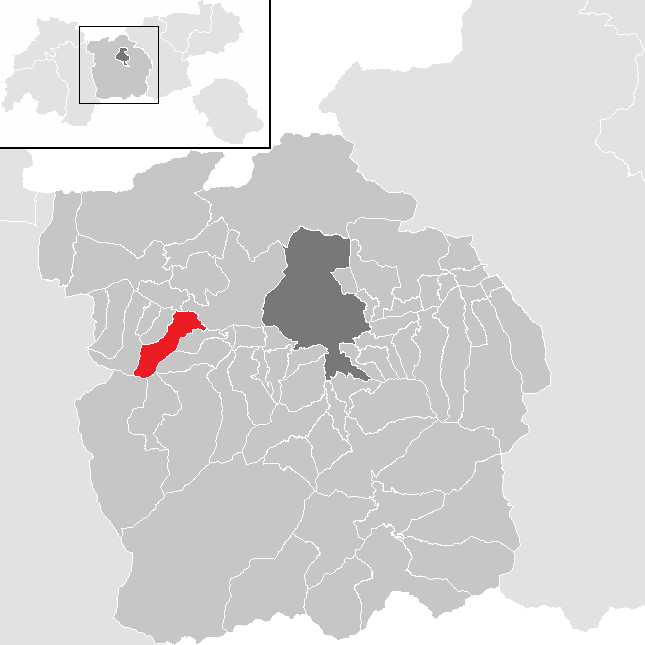 District Innsbruck Land